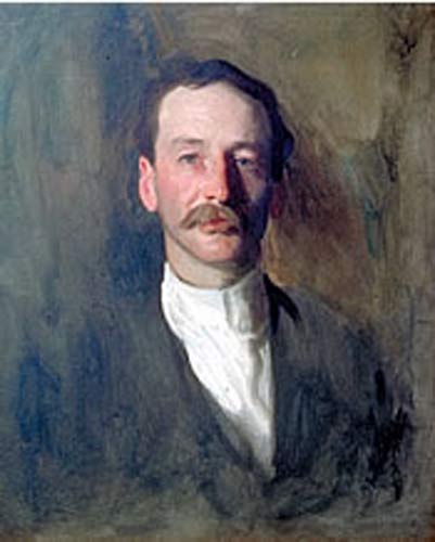 Dr. Morton Prince by John Singer Sargent (1890 or 1895) provided by John Singer Sargent Virtual Gallery